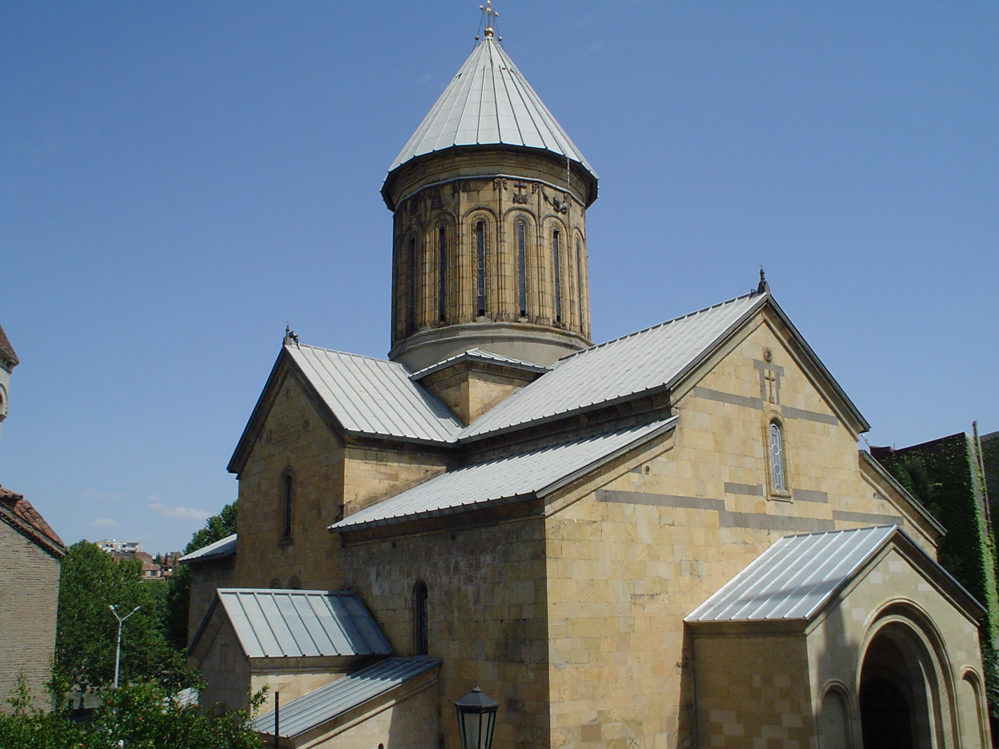 Sioni Cathedral, Tbilisi. 2008-07-16 Tbilisi, GE: Sionikatedralen. 2008-07-16 Tbilisi, Georgia: Sioni Cathedral.